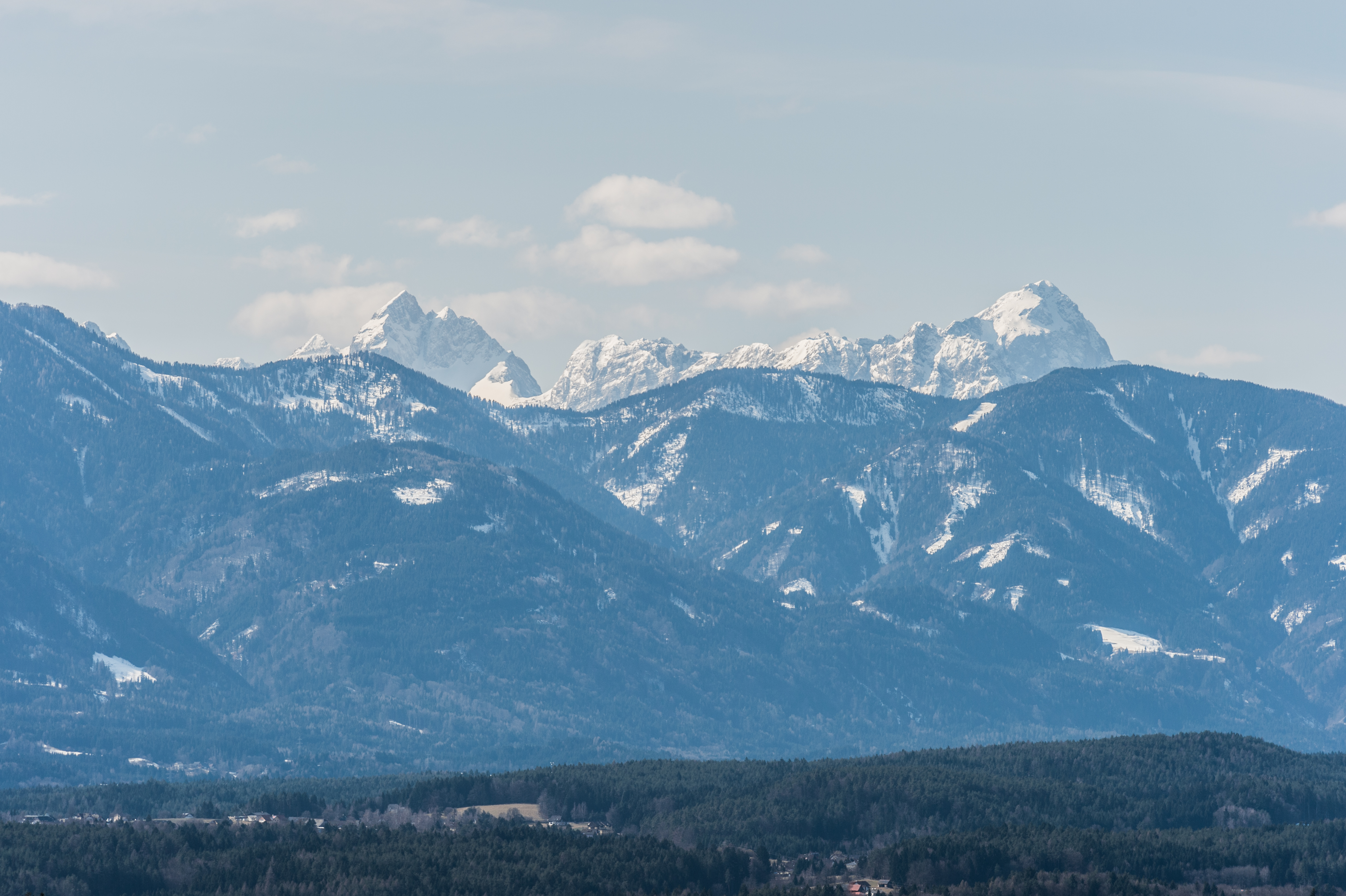 Northeastern view at the Jalovec and the Mangart from Stallhofen, municipality Wernberg, district Villach Land, Carinthia, Austria, EU